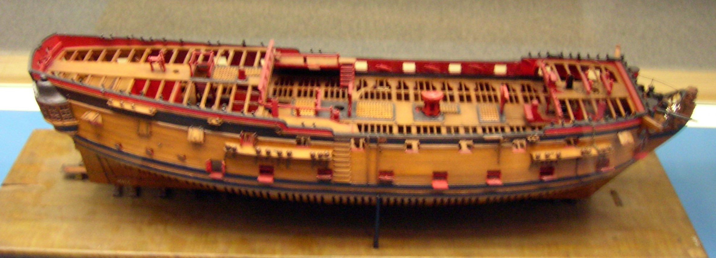 Model of Dolphin, a 20-gun ship launched in 1731 converted into a fireship in 1747, then back in 1757, and captured by the French in 1760. Port side is 20-gun, starboard side is fireship.